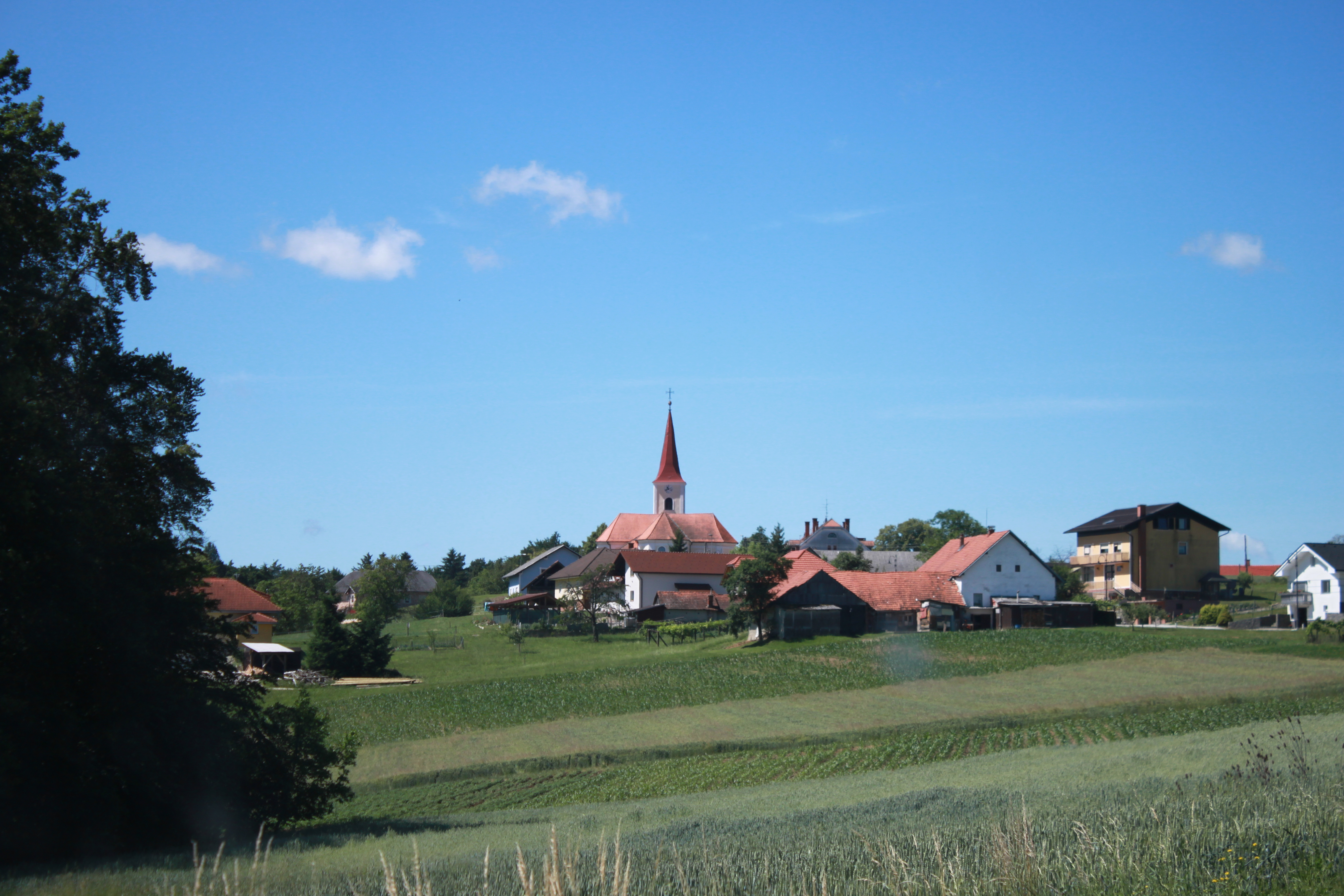 Sveti Tomaž (Slovenia), German name Sankt Thomas bei Friedau; late Baroque church of 1727.